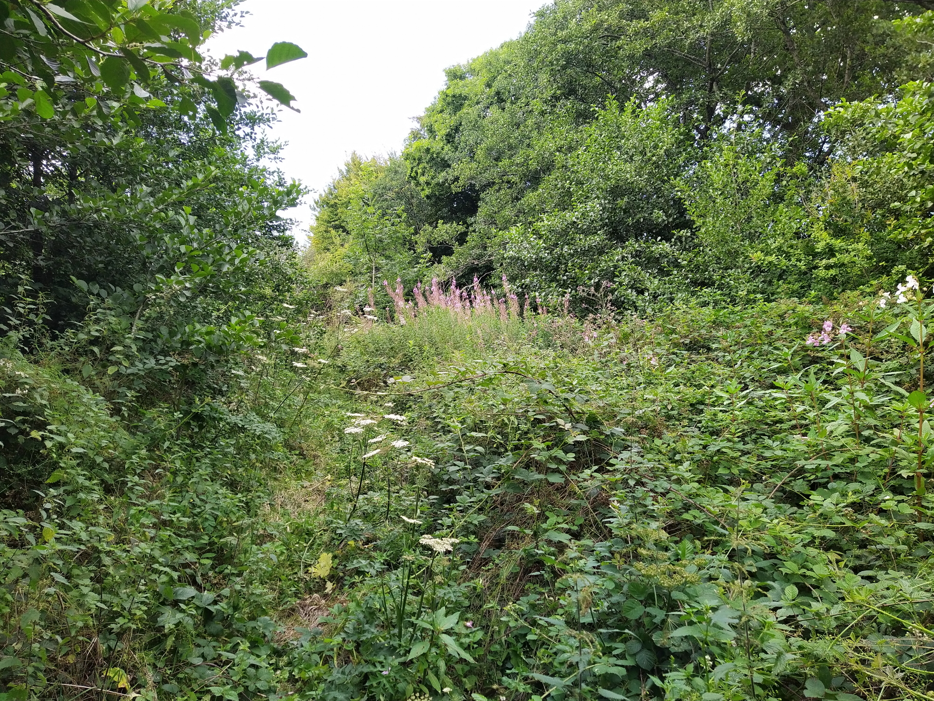 This is the original 1905-1930 Tonteg Halt. The area is now totally overgrown and unrecognisable. The track to the east of here towards Trefforest has been destroyed by the Church Village Bypass.